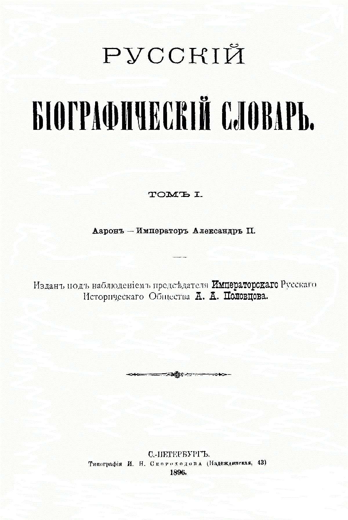 Cover 1st as "Russian Biographical Dictionary", 1896 edition